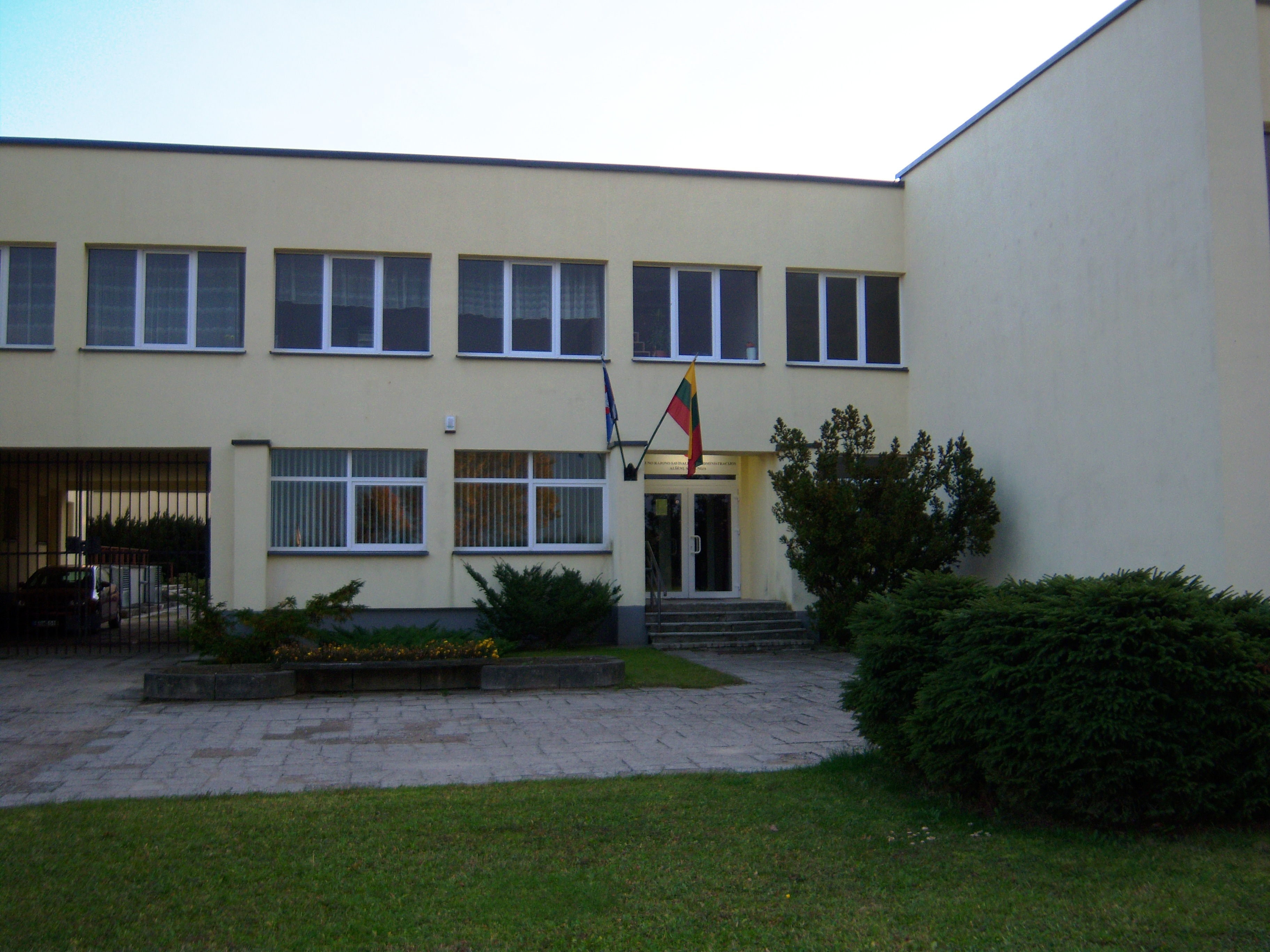 Alšėnai Eldership, Mastaičiai, Kaunas district, Lithuania